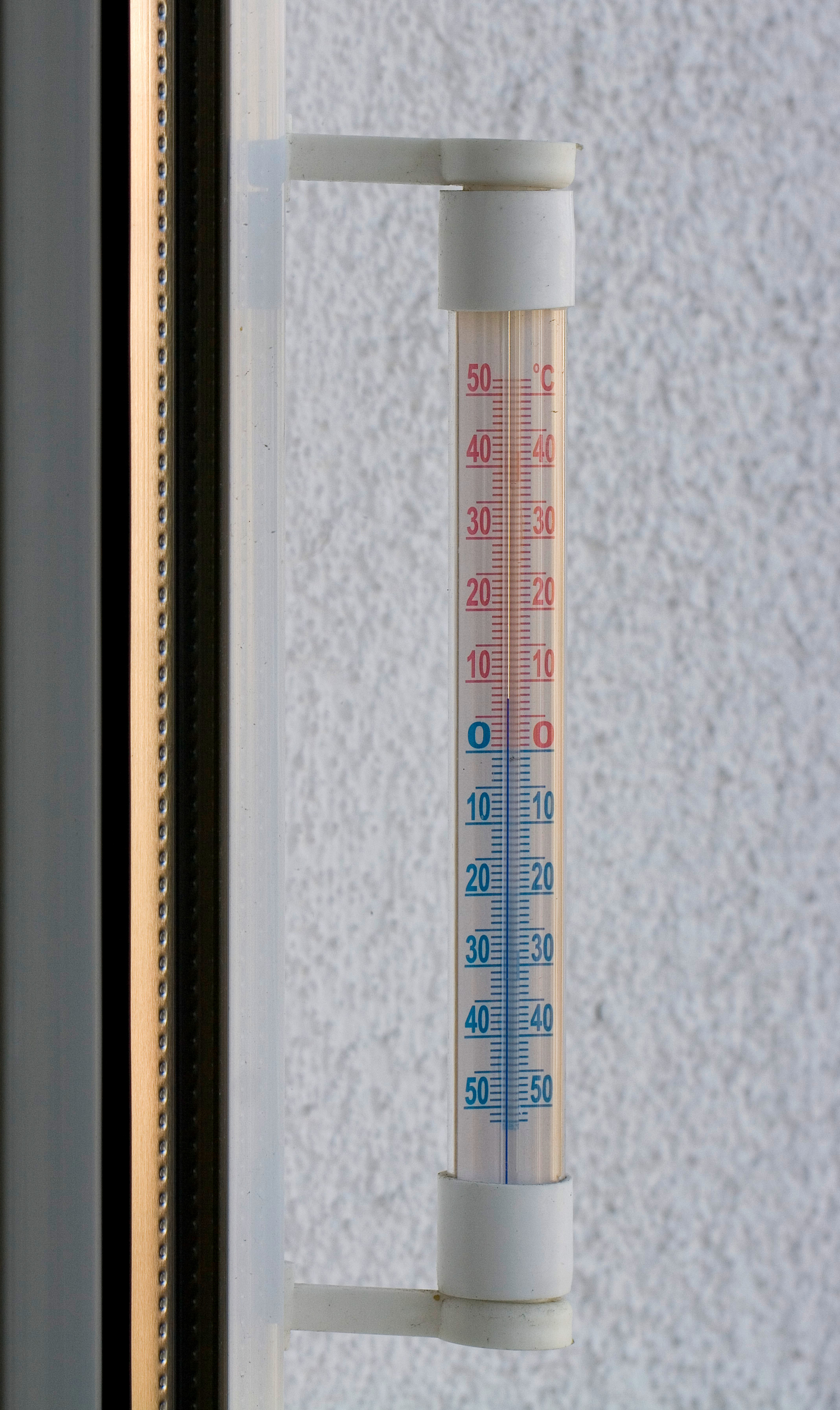 Exterior thermometer, Gniezno, Poland